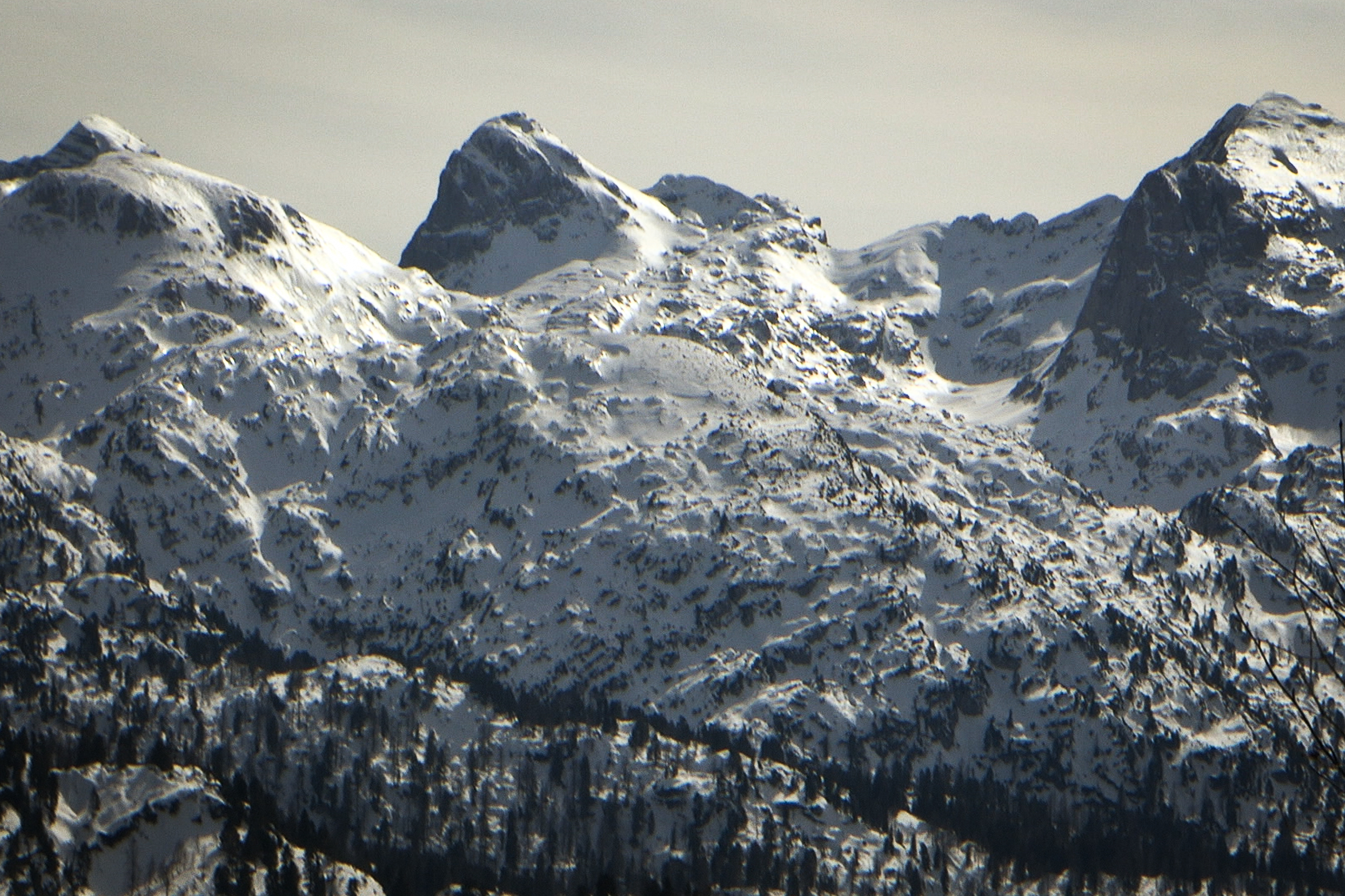 The German Army’s Reiteralpe Training Area, summiting at over 2,200 meters above sea level is home to the Bundeswehr’s Gebirgsjägerbataillon 232, located in Bischofswiesen Bavaria.